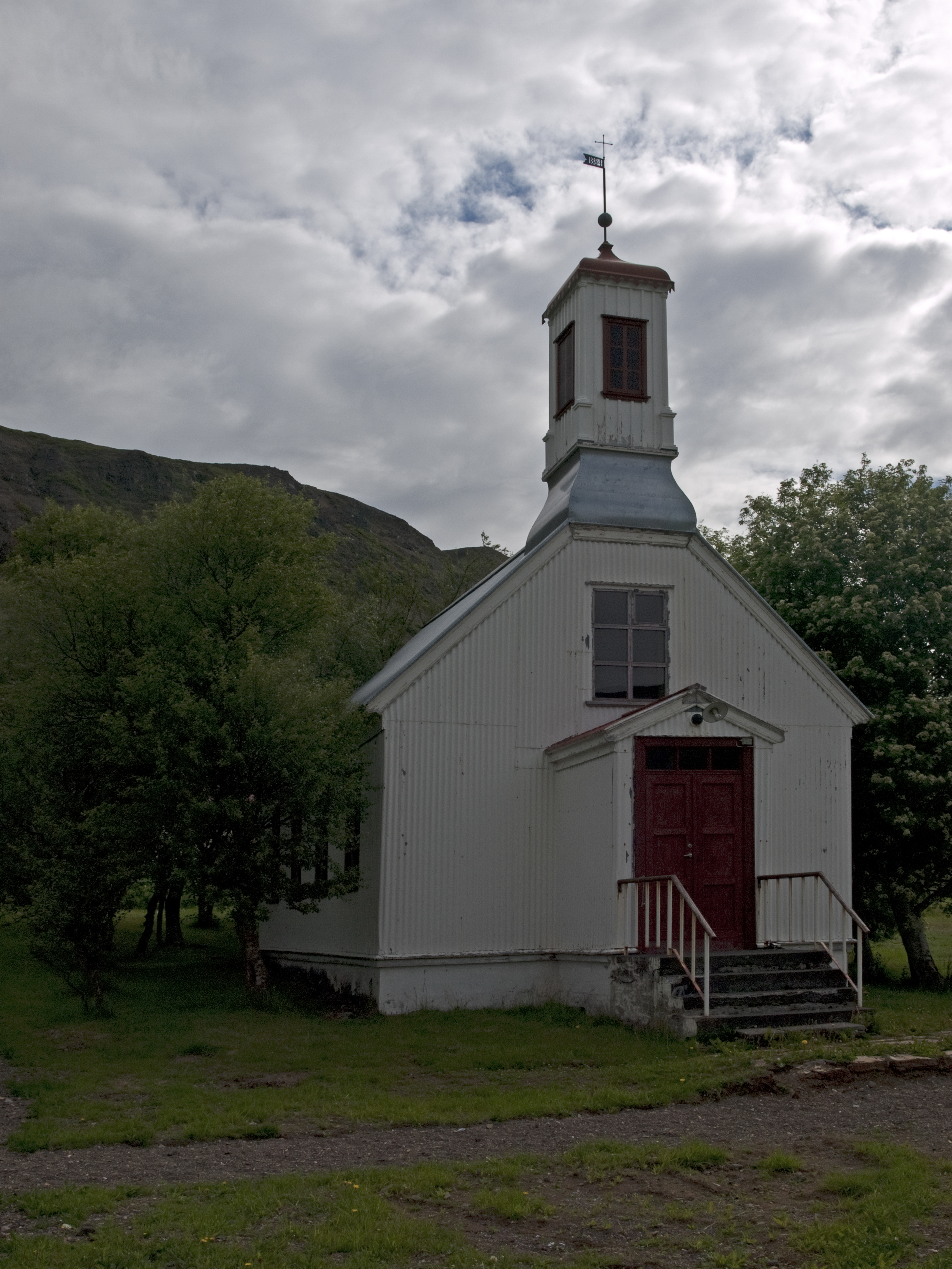 Church in Hvammur í Dölum, Dalabyggð